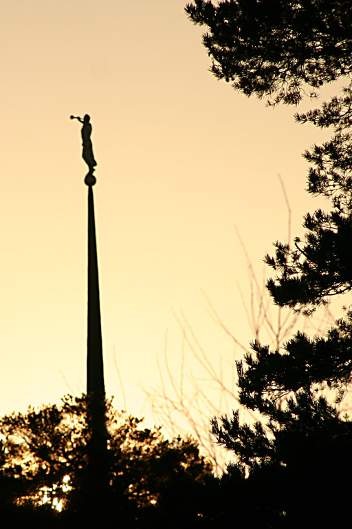 I passed the Mormon Temple in Västerhaninge this afternoon. Took this picture of the golden trumpet playing angel just as the sun disappeared. The Mormon's put the angel, calling him Moroni, on the top of their temples. Statue of the Angel Moroni atop the spire of the Stockholm Sweden Temple of The Church of Jesus Christ of Latter-day Saints.